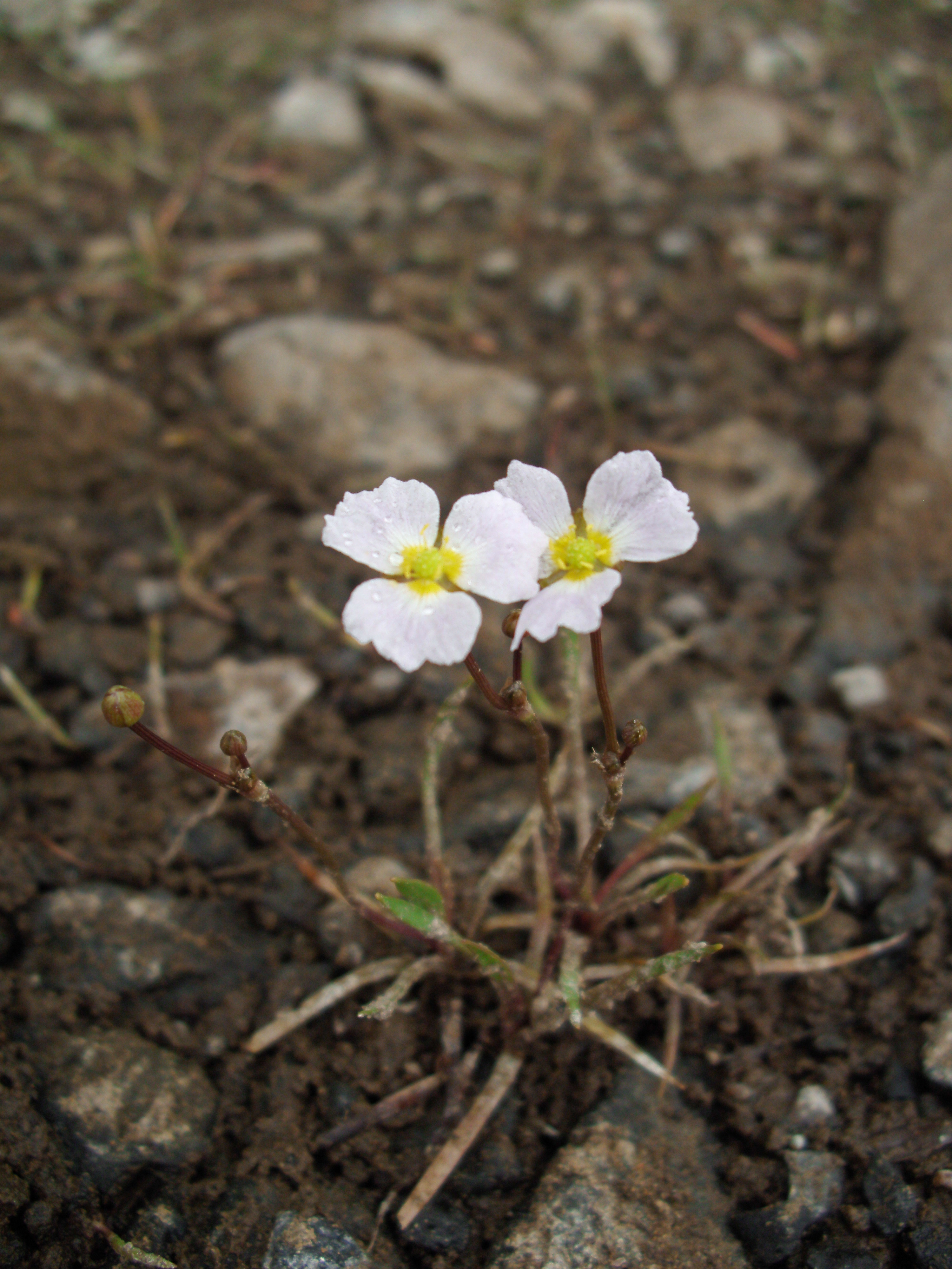 The plant Baldellia ranunculoides flowering on the west shore of Lough Eske, Co. Donegal, Ireland (June 2010)